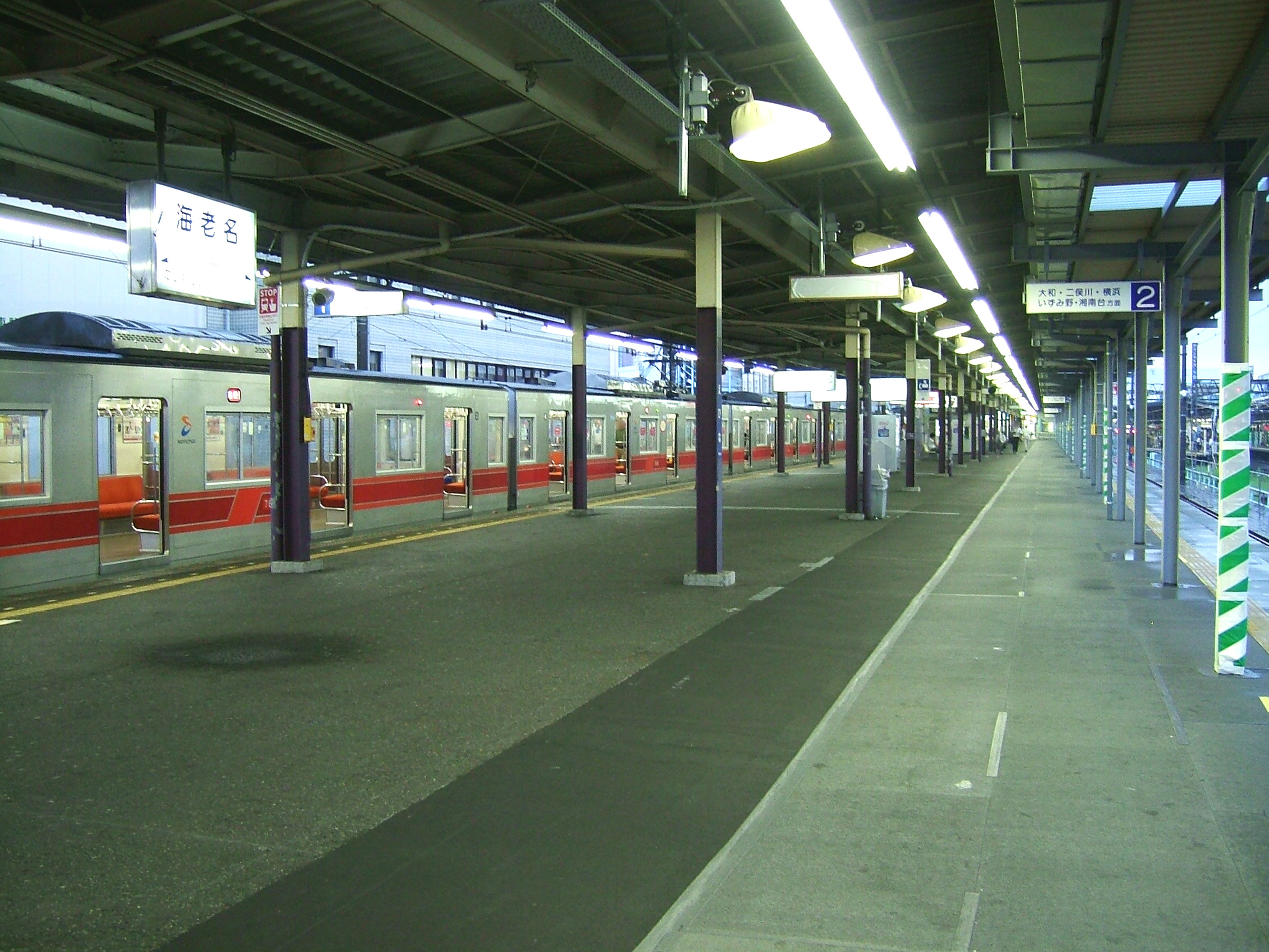 The platform at Ebina Station, Sagami Railway Main Line